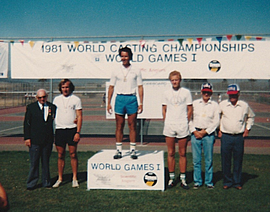 Casting - medal podium at World Games I